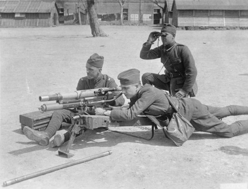 The American Army during the First World War 37mm gun fitted with telescopic sight in firing position at the Army Specialists School, Langres.